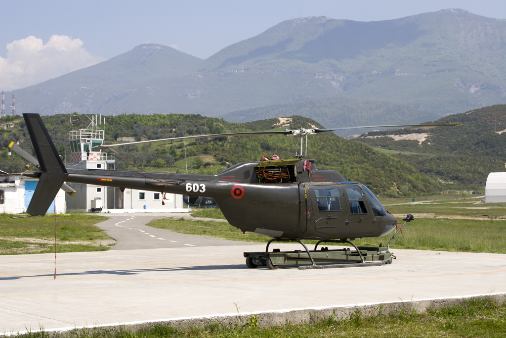 A new looking AB206 at Farke airbase.